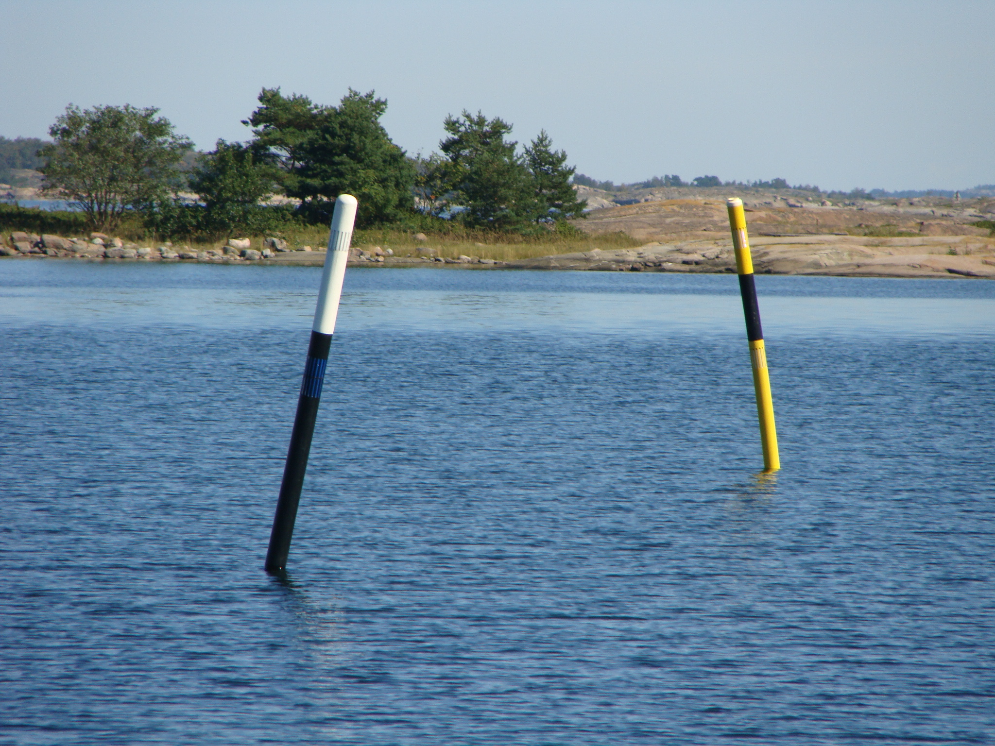 South and west cardinal spar buoys by Aspö island in Southern Archipelago Sea in Finland.